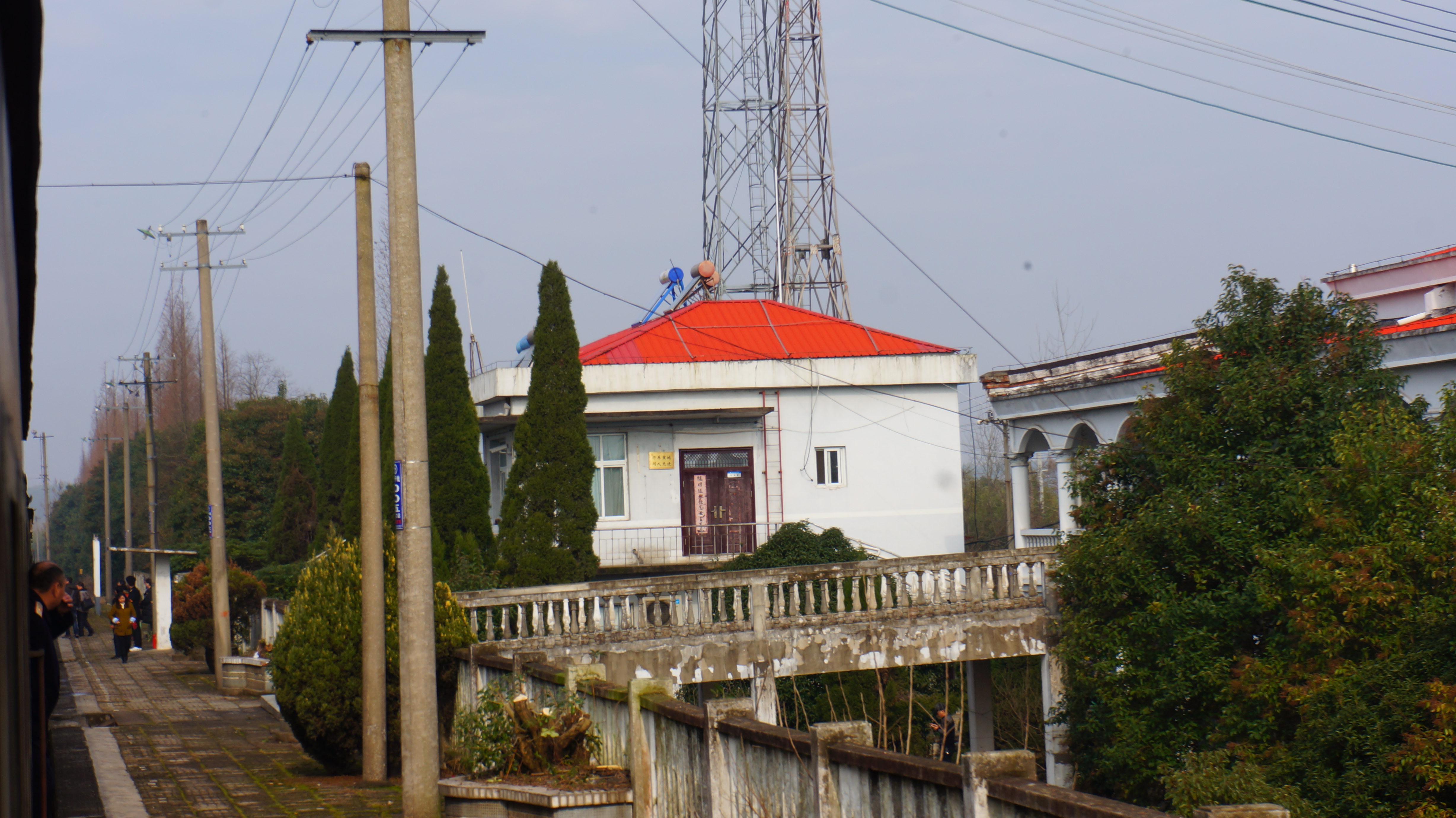 201601 Gangkouzhen Railway Station